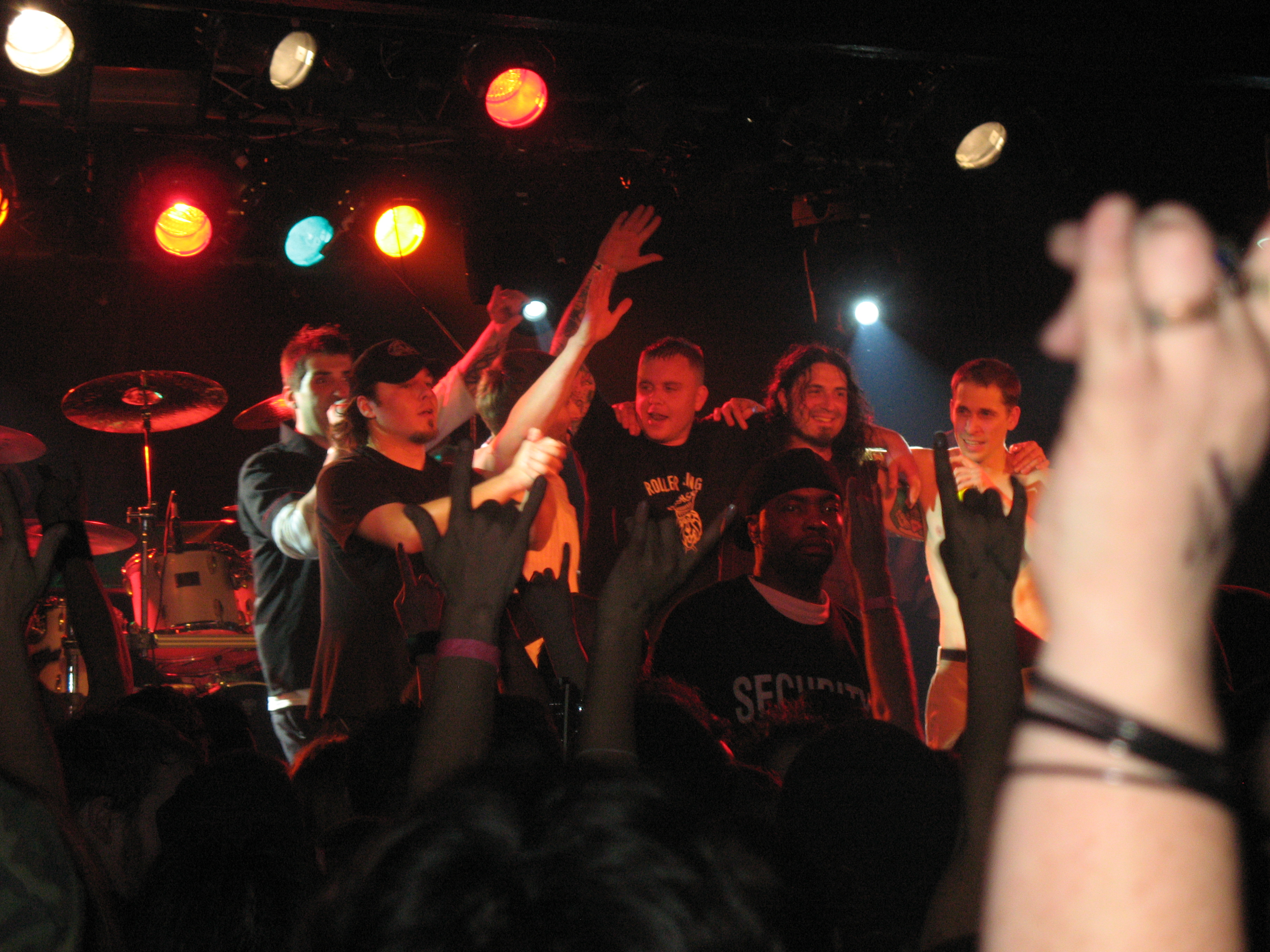 Dog Fashion Disco's final curtain call in Baltimore, Maryland at Sonar.